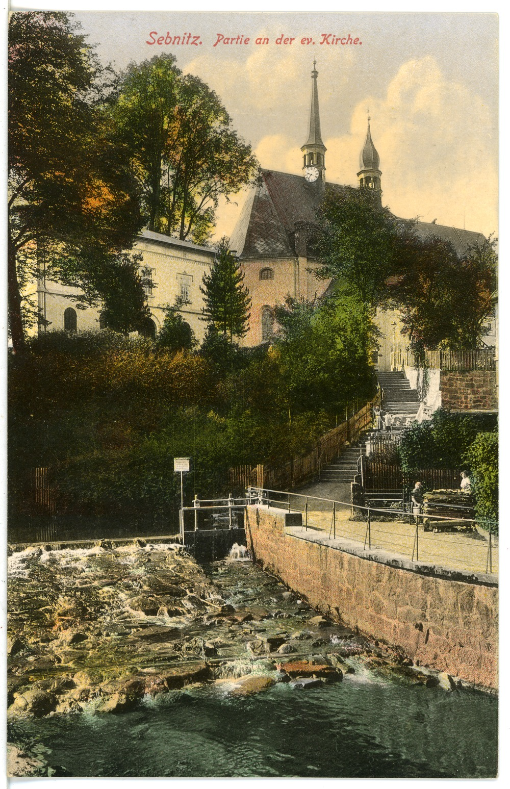 This postcard is from publisher Brück & Sohn in Meißen ( This postcard has a unique number 17063 and is available in a higher resolution at the publisher. This images was uploaded in a cooperation project between Wikipedians and the publisher.